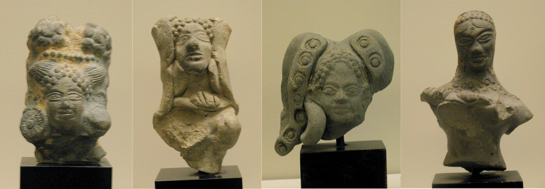 Statuettes of the Maurya period, 4th-3rd century BCE. Musée Guimet. Personal photographs 2006.